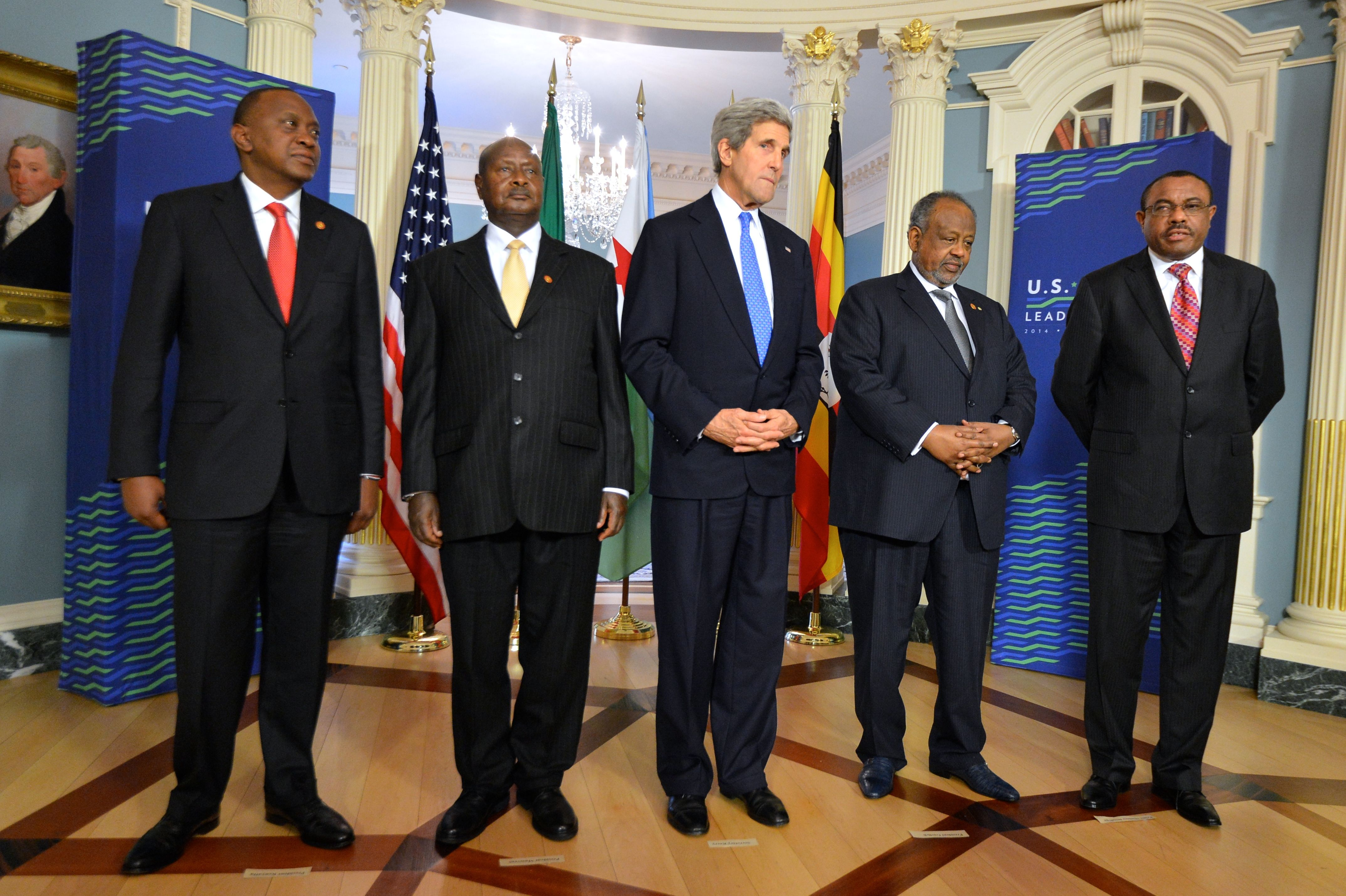 U.S. Secretary of State John Kerry meets with Regional Heads of Delegations to discuss the situation in South Sudan at the U.S. Department of State in Washington, D.C., on August 5, 2014. Leaders from across the African continent are in the nation's capital for a three-day U.S.-Africa Leaders Summit, the largest event any U.S. President has held with African heads of state and government.